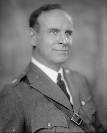 Pelham D. Glassford (US Army General)